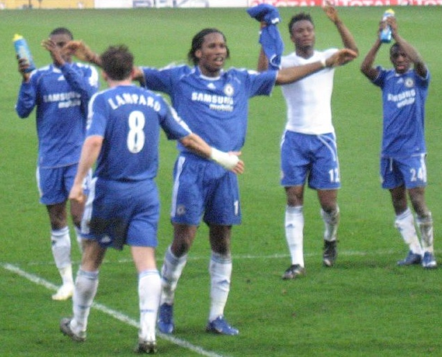 (Left to right) Salomon Kalou, Frank Lampard, Didier Drogba, John Obi Mikel, Sean Wright Phillips